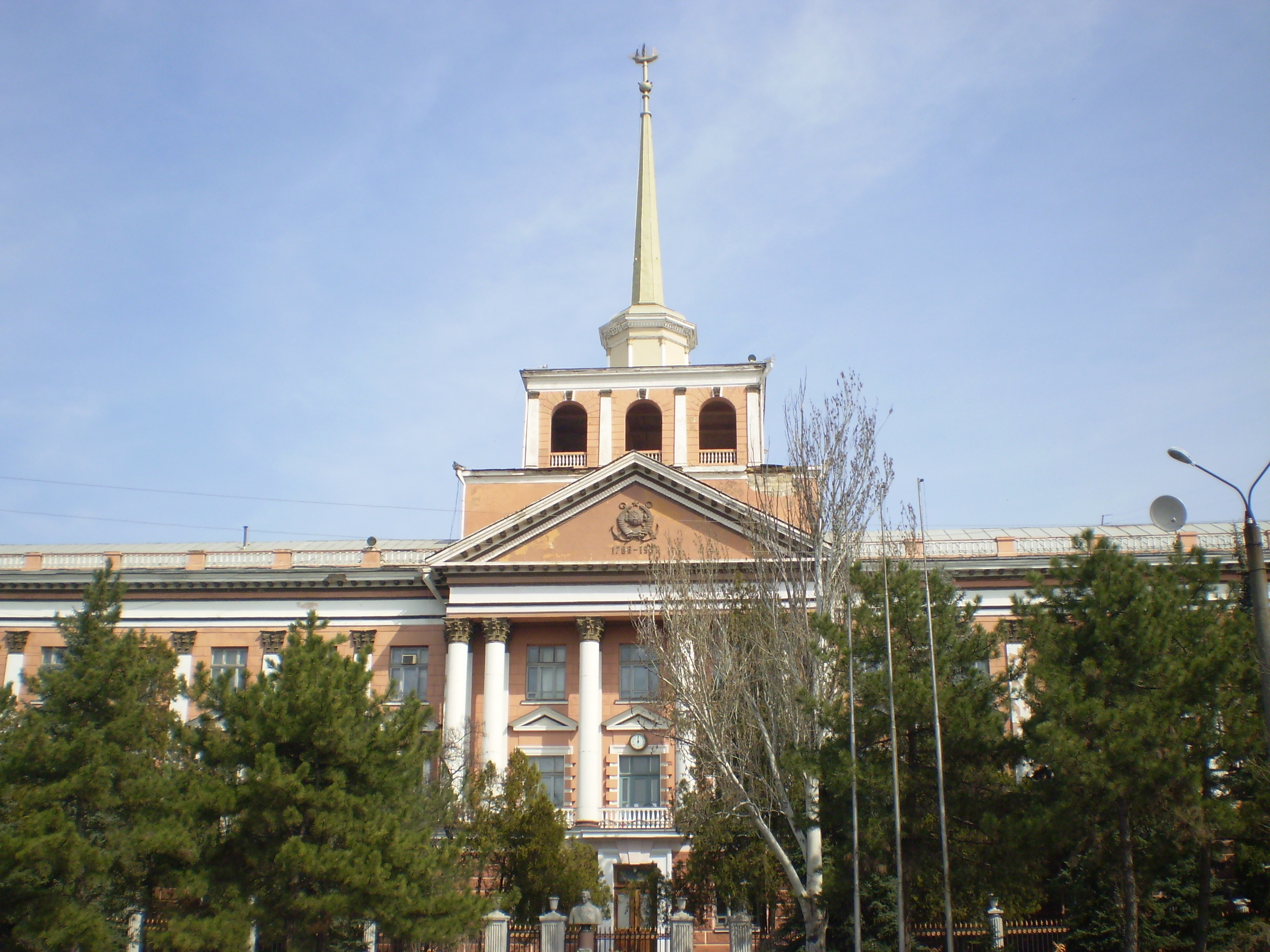 Адміністративне приміщення заводоуправління (народна назва "Адміралтейство"), вул. Адміральська, 38Миколаївська весна у Вікіпедії